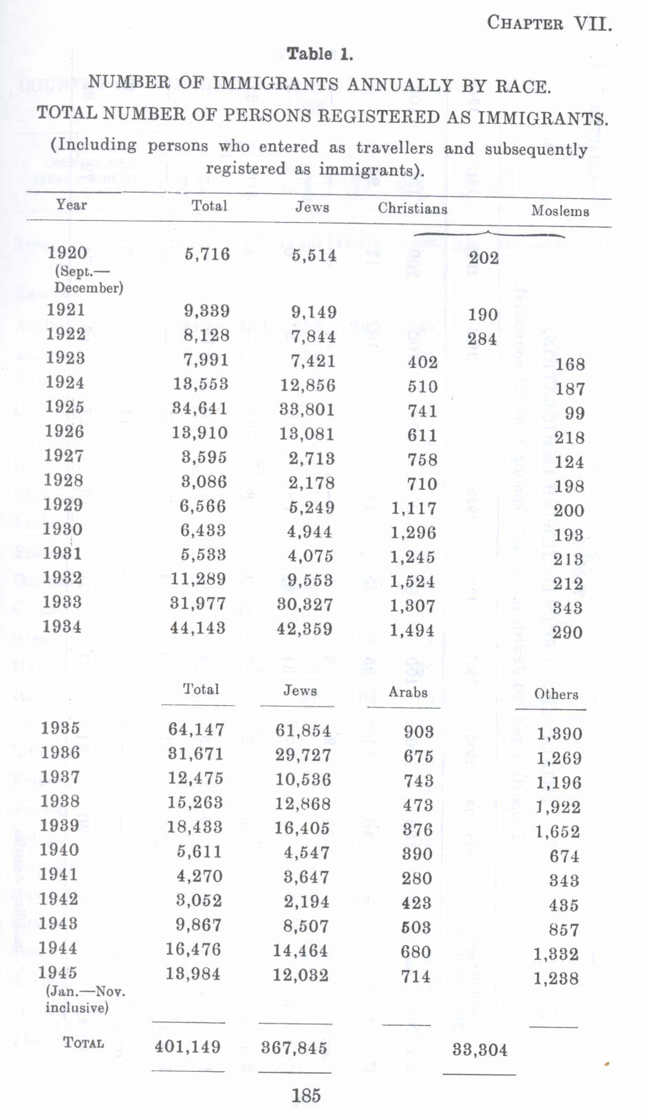 Survey of Palestine Page 185